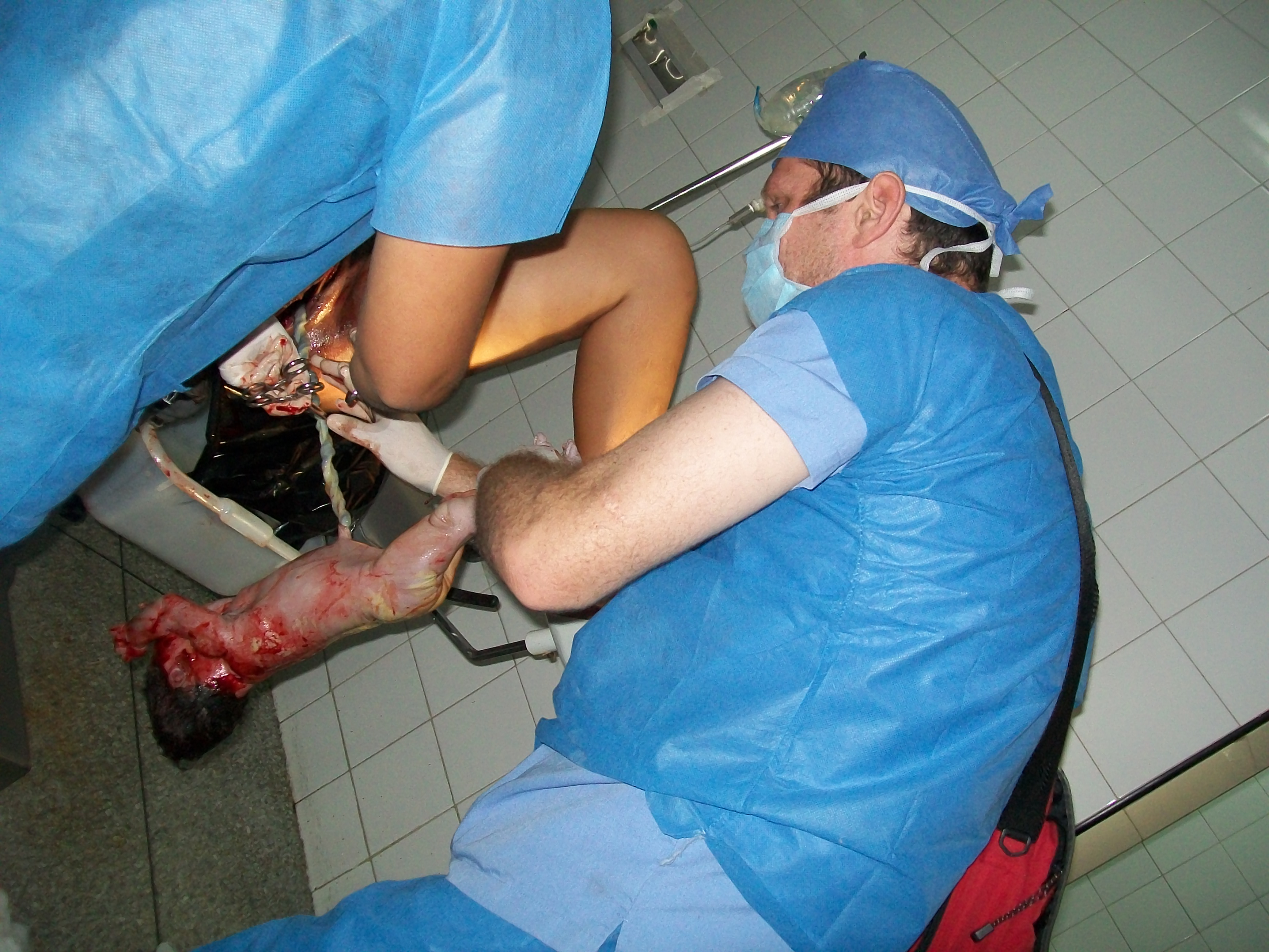 Vaginal delivery, Maracay, Venezuela.